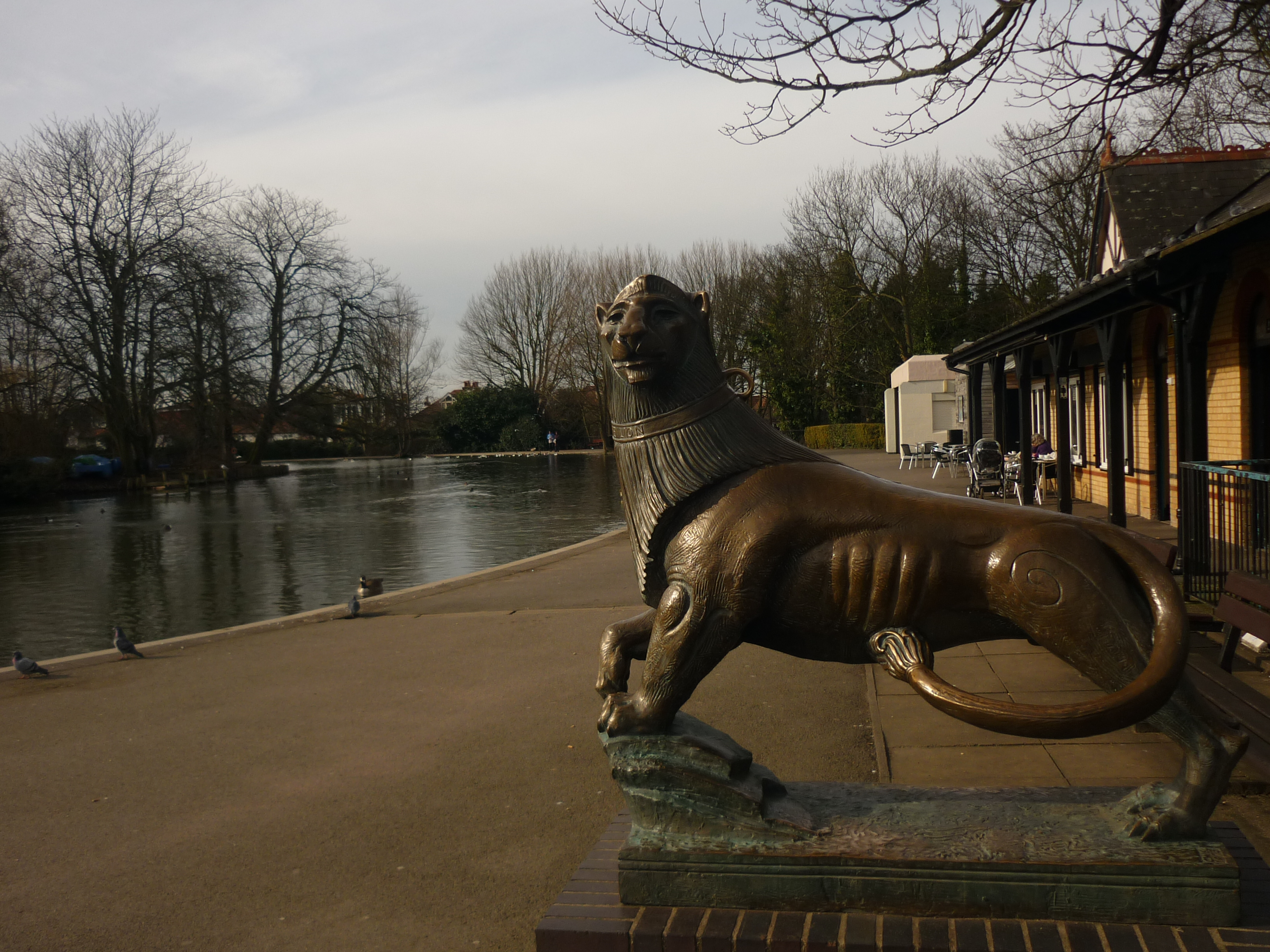 "Leo the Lion" statue, Alexandra Park, North London